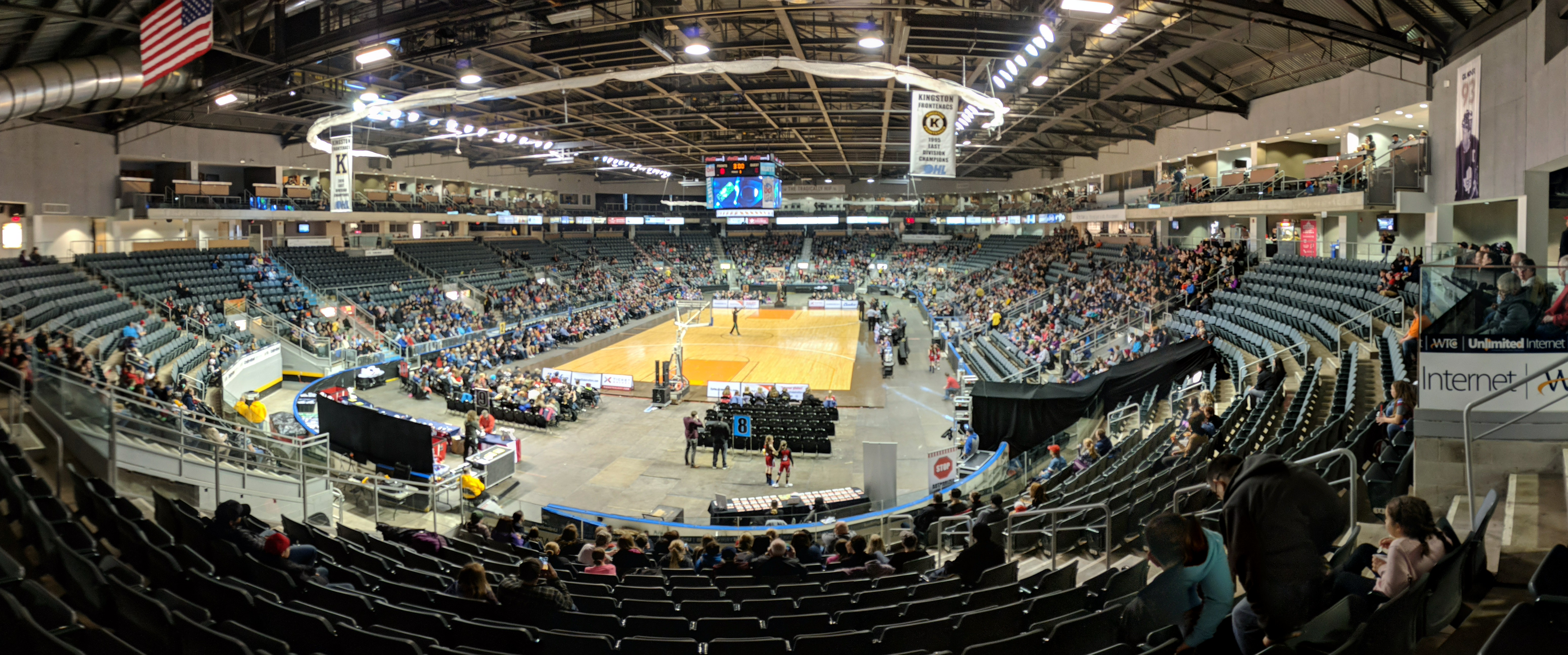 Rogers K-Rock Centre in its Basketball formation for a game against the Harlem Globetrotters and the Washington Generals.